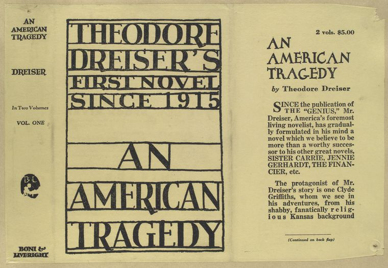 Dust jacket for Theodore Dreiser's "An American Tragedy," two volumes, published by Boni & Liveright. Courtesy of the New York Public LIbrary Digital Collection.